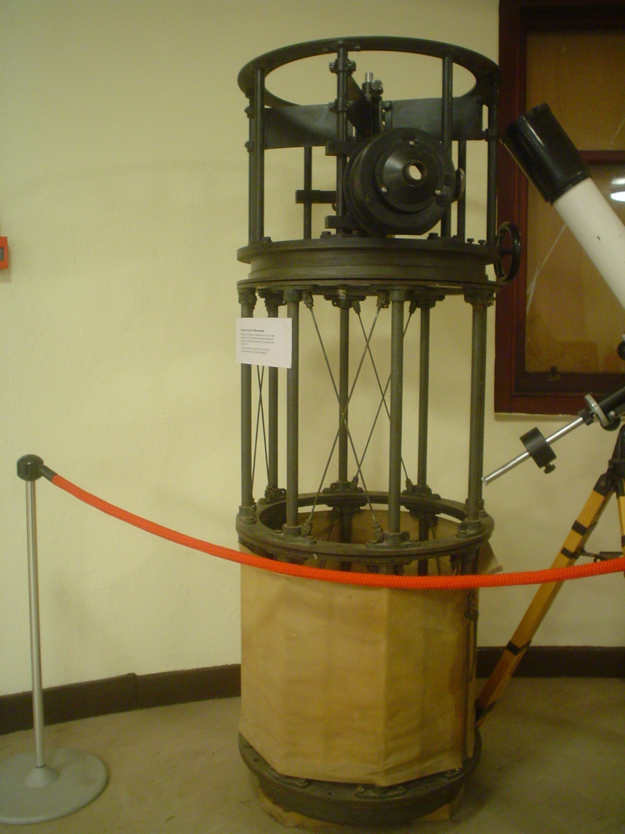 Taken with Cybershot DSC-P32 -Cyril Thomas 23:19, 13 March 2007 (UTC)